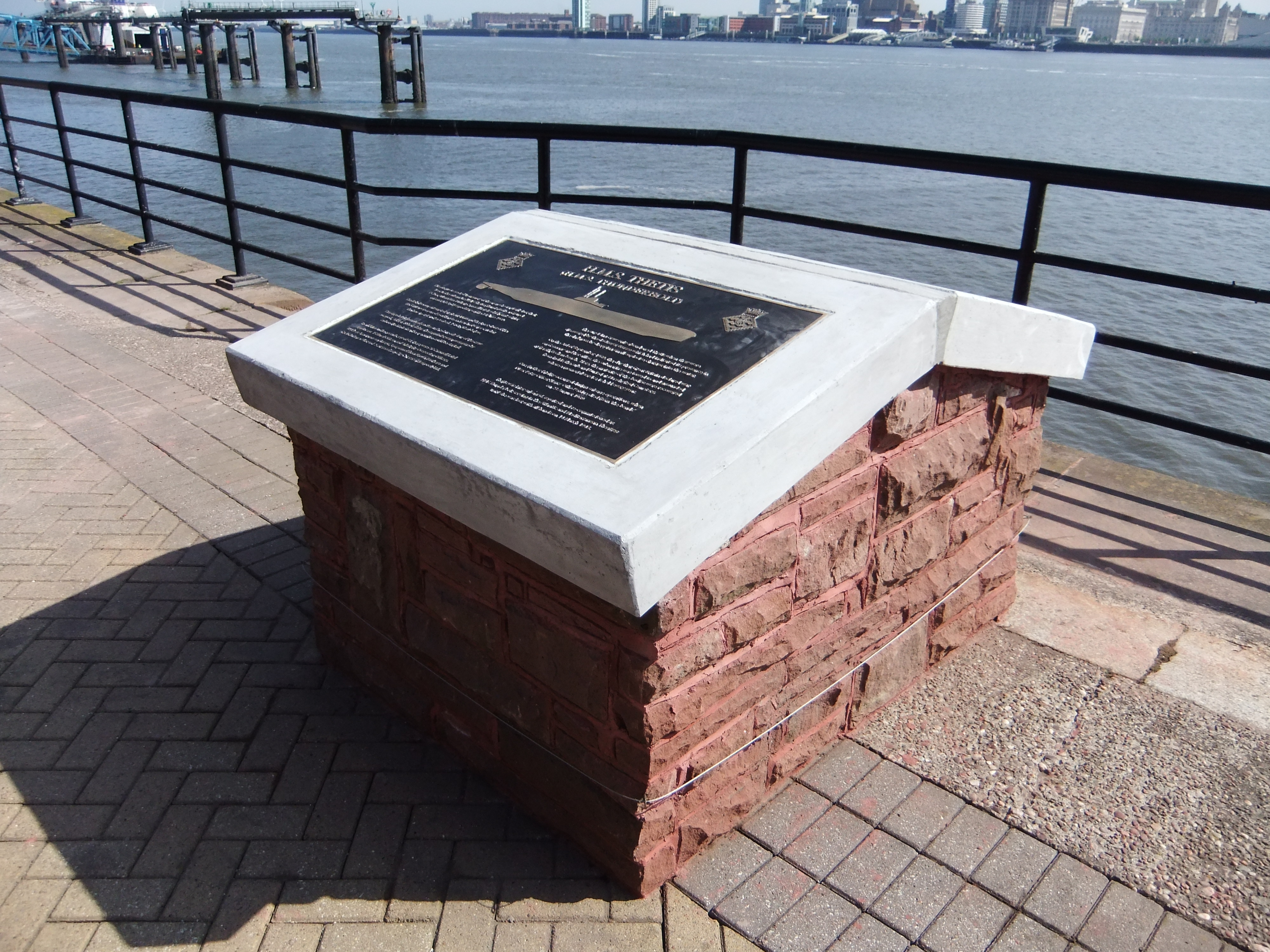 HMS Thetis memorial at Woodside, Birkenhead, Merseyside, England.